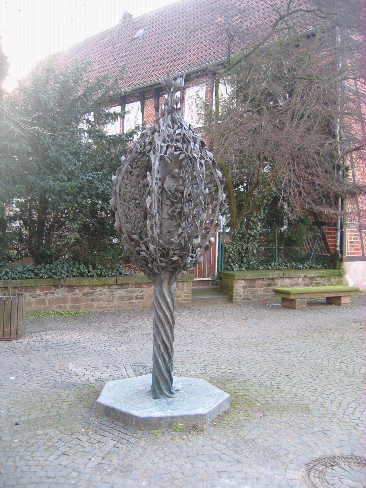 Abbey memorial sculpture in Herford, District of Herford, North Rhine-Westphalia, Germany.